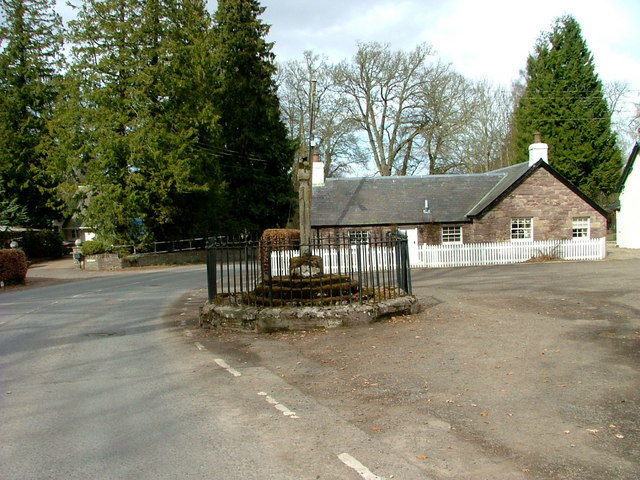 Mercat Cross, Meikleour Meikleour is a quiet Perthshire village, famed for the nearby Beech hedge.